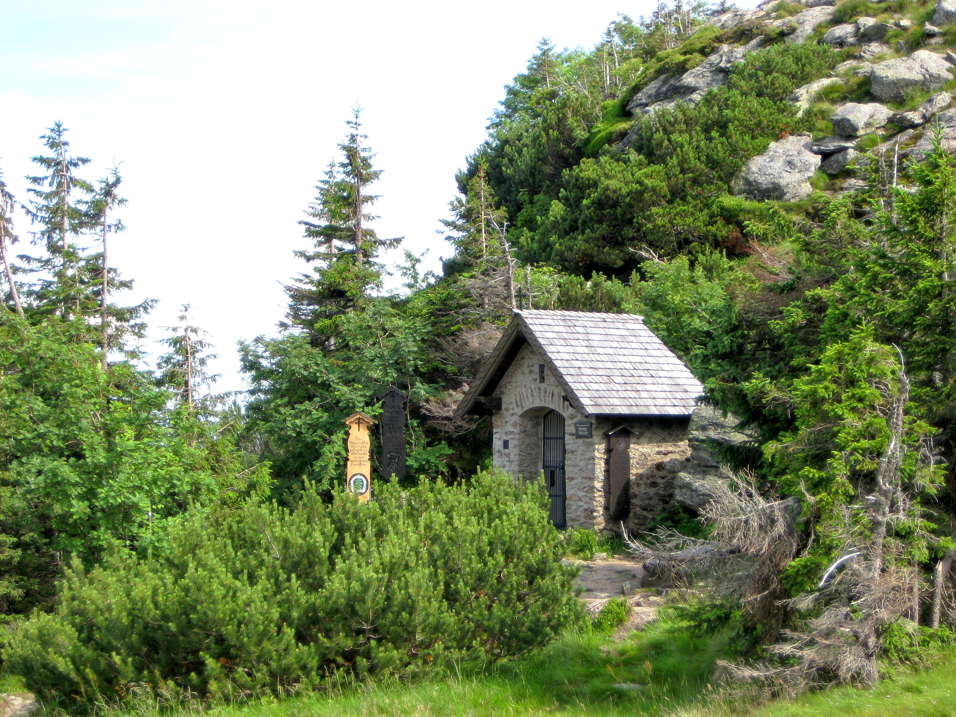 Chapel near the summit of the Großer Arber